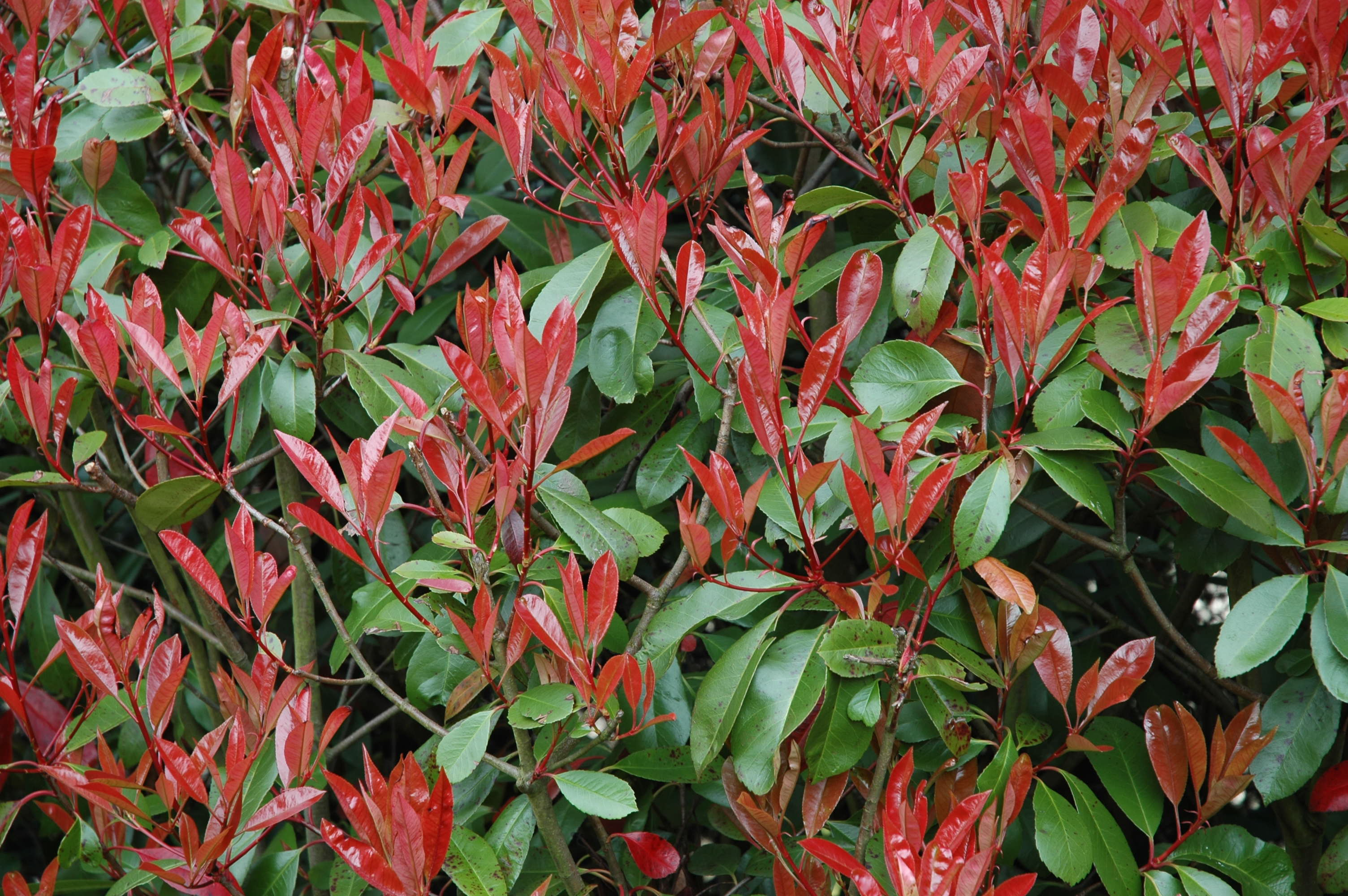 Leaves of photinia fraseri. Other photos of the same type